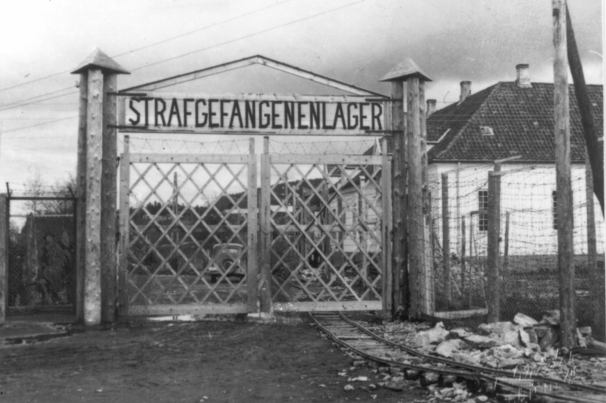 Inngangsporten til Falstad kort tid etter frigjøringen. Fortsatt står det "Strafgefangenenlager", men "SS" er tatt bort. Gjennom porten går skinnegangen. The main gate at Falstad shortly after Liberation. Above the gate it still syas "Strafgefangenenlager", but "SS" has been removed. The rail track passes through the gate. Dato/Date: 1945 Fotograf/Photographer: Schrøder Sted/Place: Ekne, Nord-Trøndelag, Norge/Norway Arkivreferanse/Archive reference: FSM foto 0700250